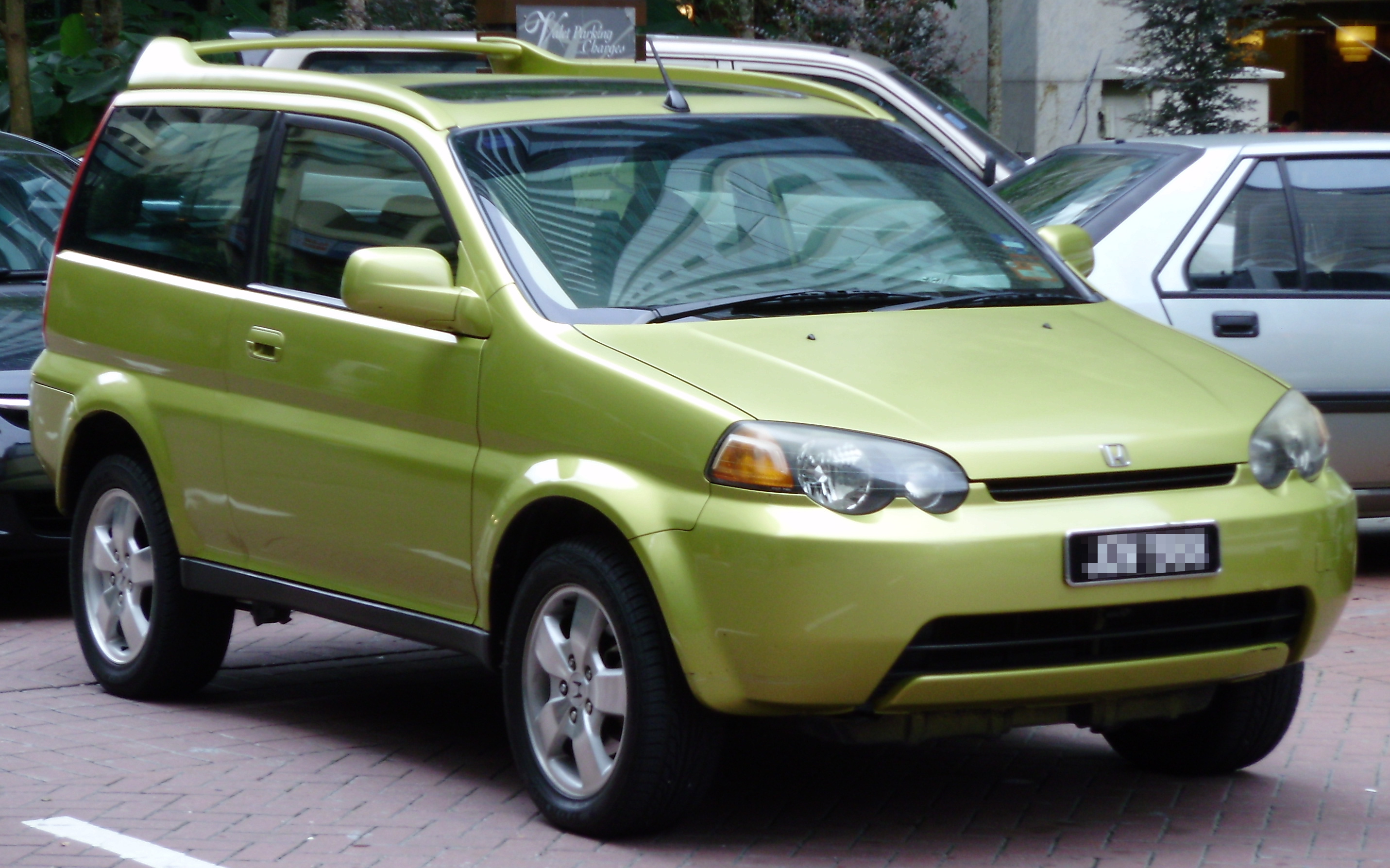 Front quarter view of a three-door, first generation Honda HR-V in Kuala Lumpur, Malaysia.